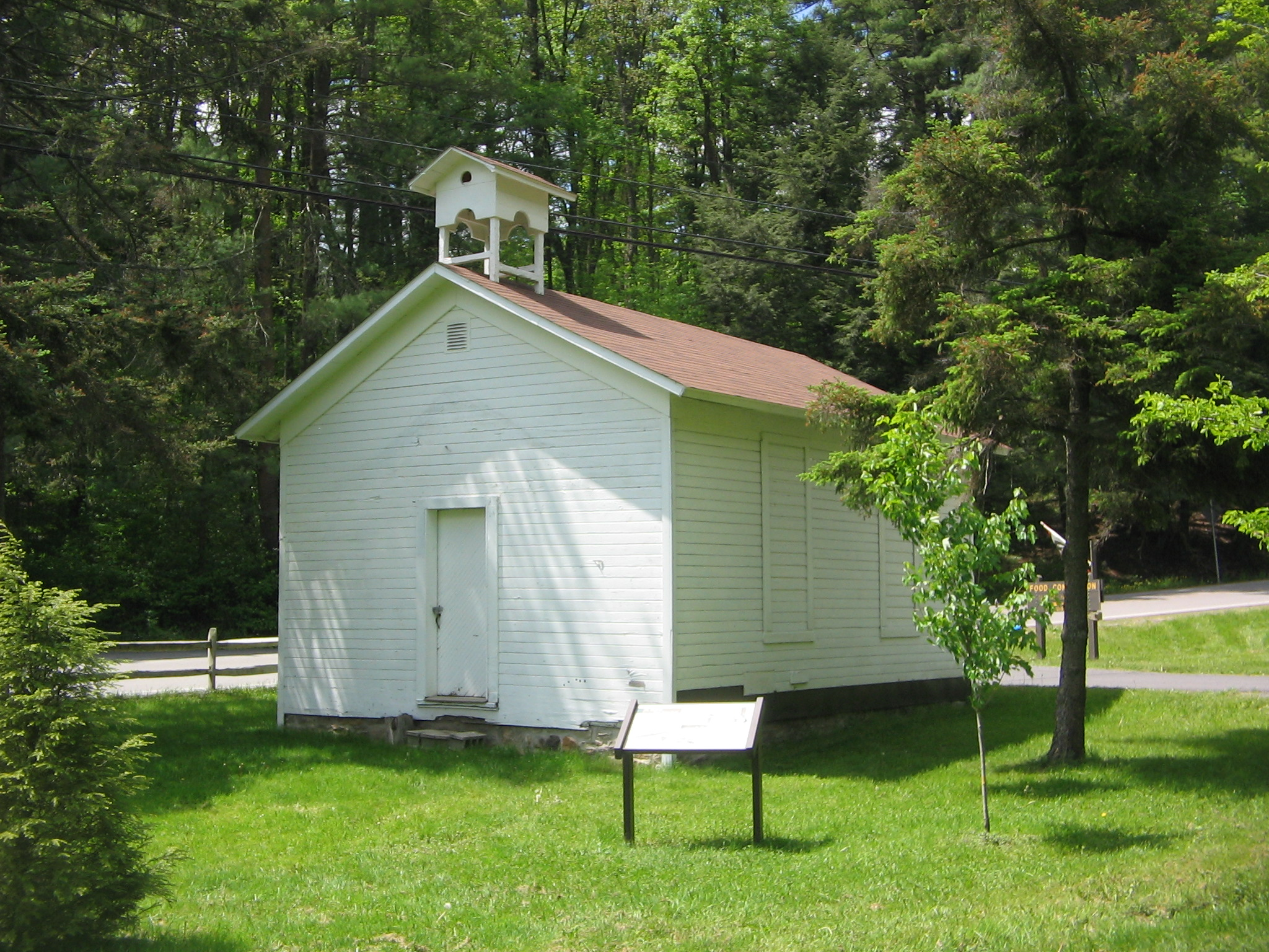 Moshannon School for the lumber village of Antes (built late 1800s, after 1879) at Black Moshannon State Park, near Phillipsburg, Rush Township, Centre County, Pennsylvania, USA.